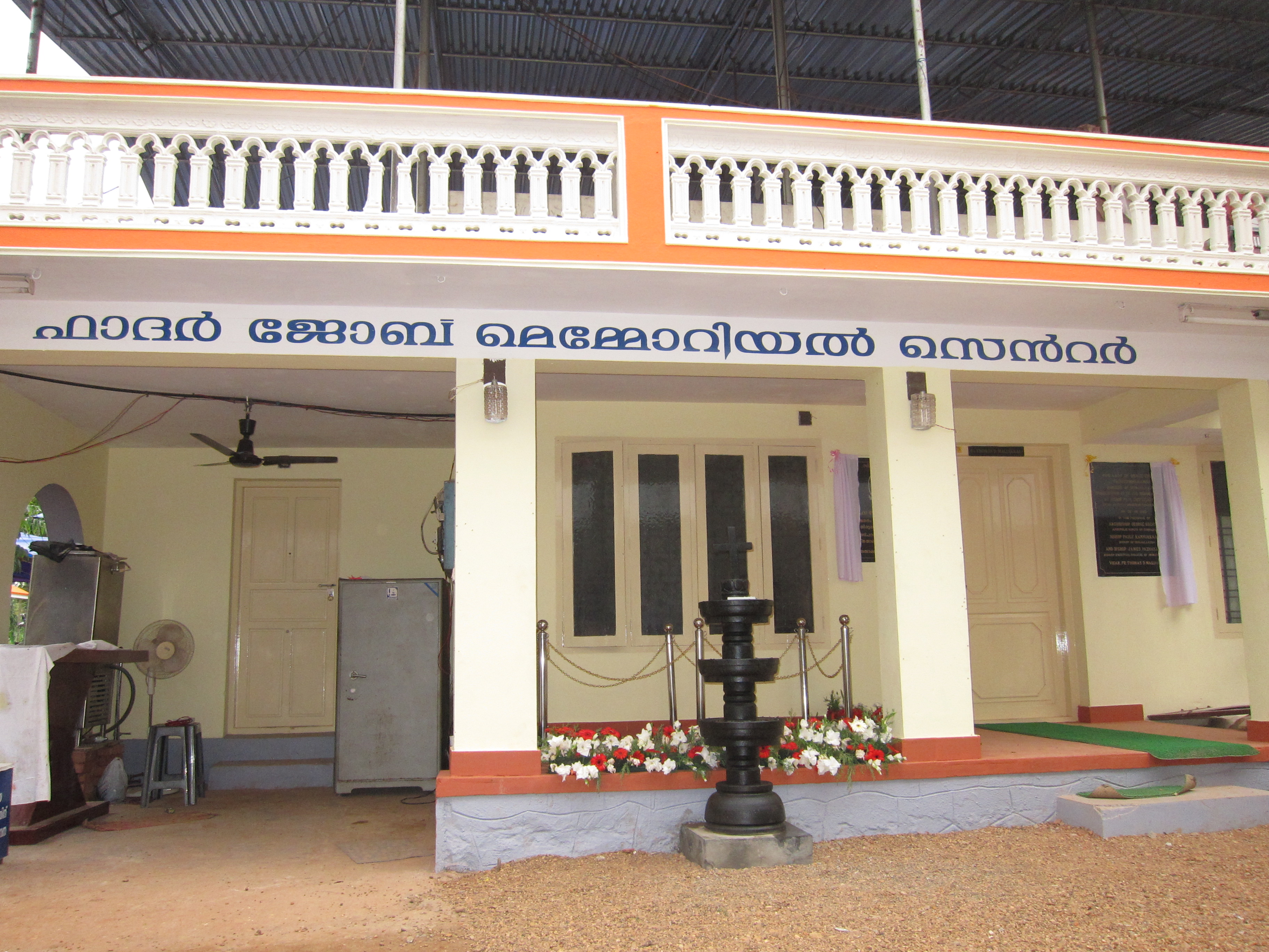 Thuruthiprambu Church - തുരുത്തിപറമ്പ് പള്ളി Our Lady of Grace Church, Thuruthiparambu - വരപ്രസാദ നാഥ ദേവാലയം, തുരുത്തിപ്പറമ്പ് Irinjalakuda Diocese - ഇരിങ്ങാലക്കുട രൂപത Thrissur Arch-Diocese - ത്രിശ്ശൂർ അതിരൂപത Thrissur District - ത്രിശ്ശൂർ ജില്ല 6 k.m away from Chalakudy - ചാലക്കുടിയിൽ നിന്ന് 6 കി.മി ദൂരം